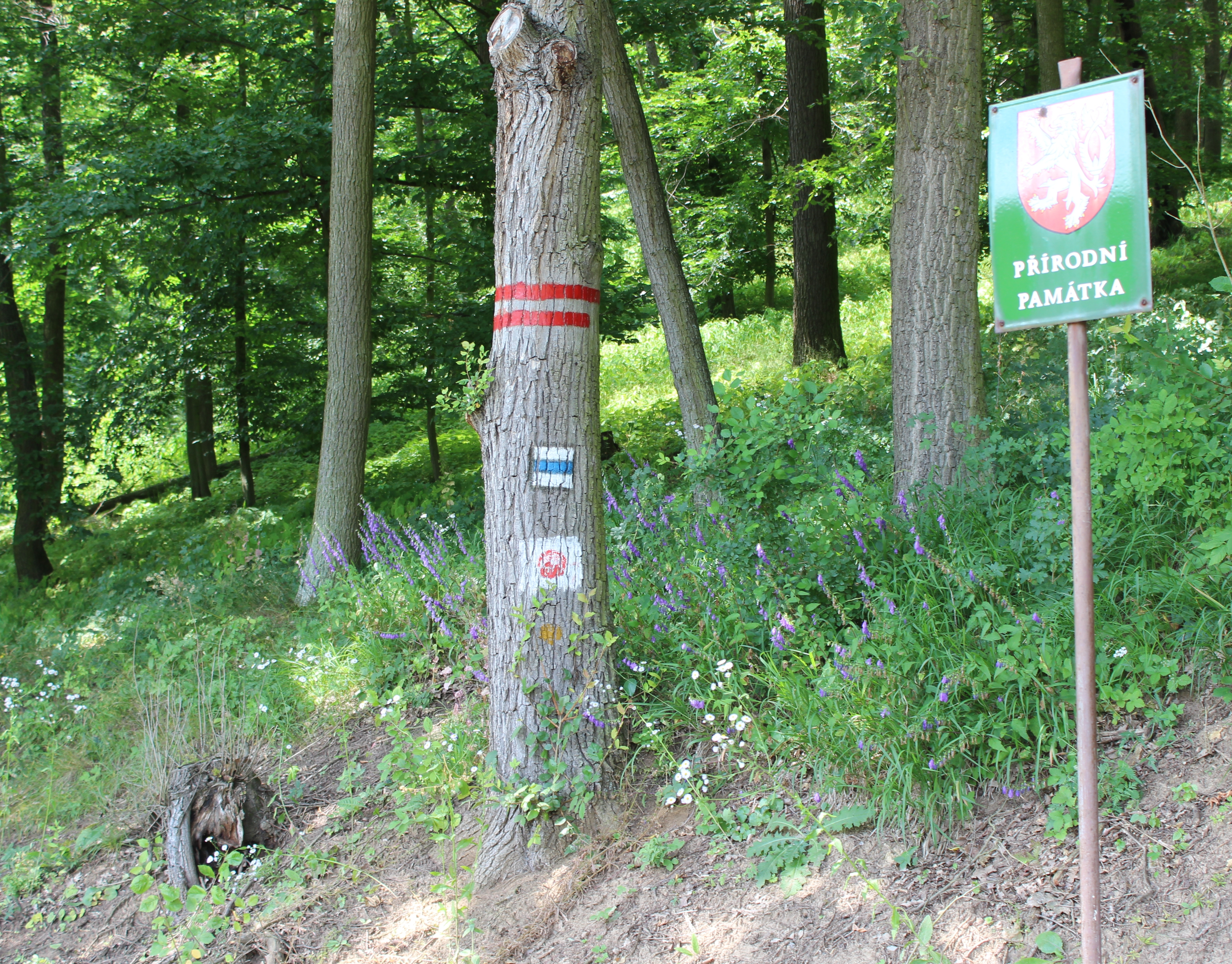 Strelicky les (nature reserve). Brno-Country District, South Moravian Region, Czech Republic